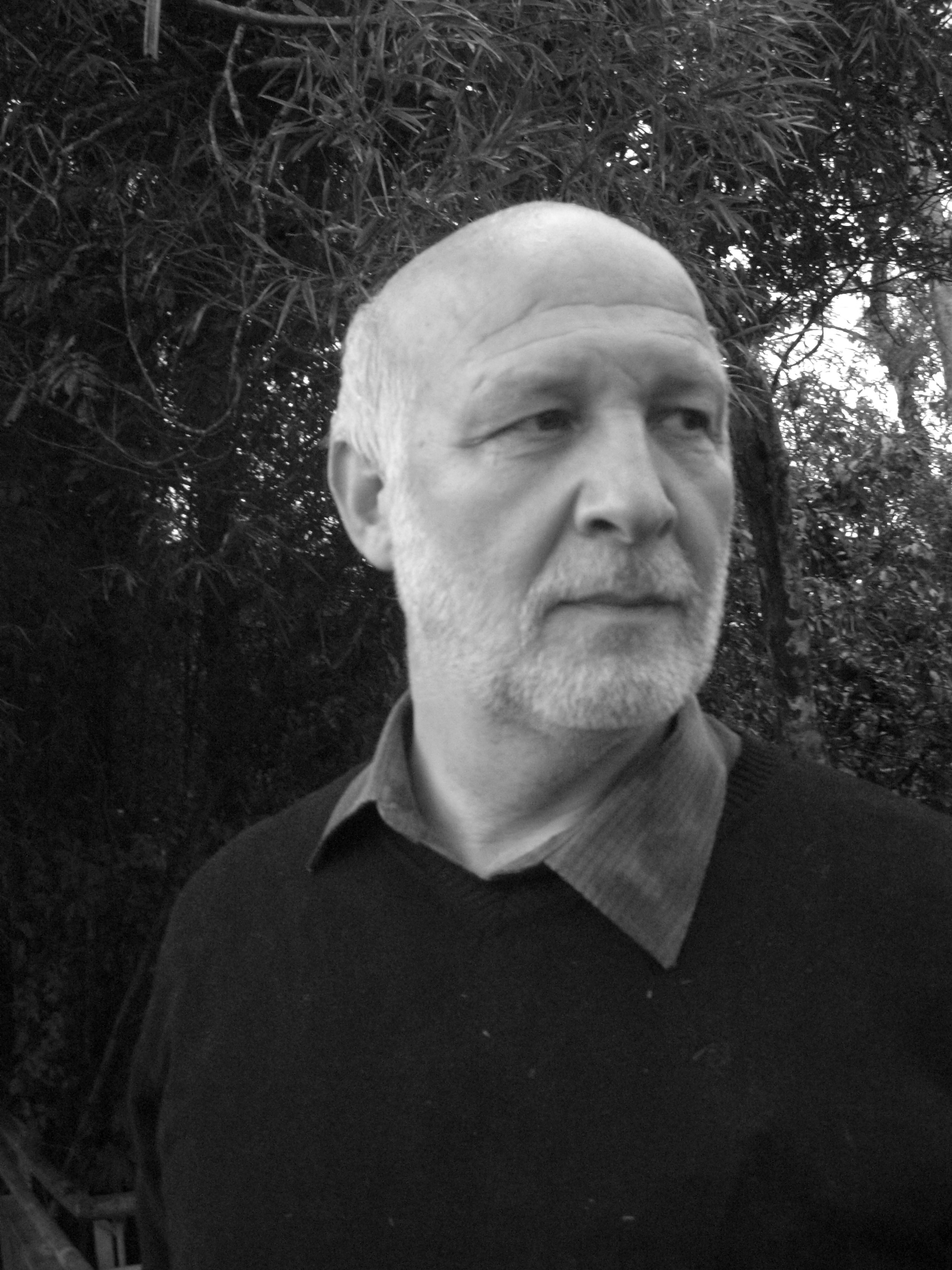 Fonagy in 2008